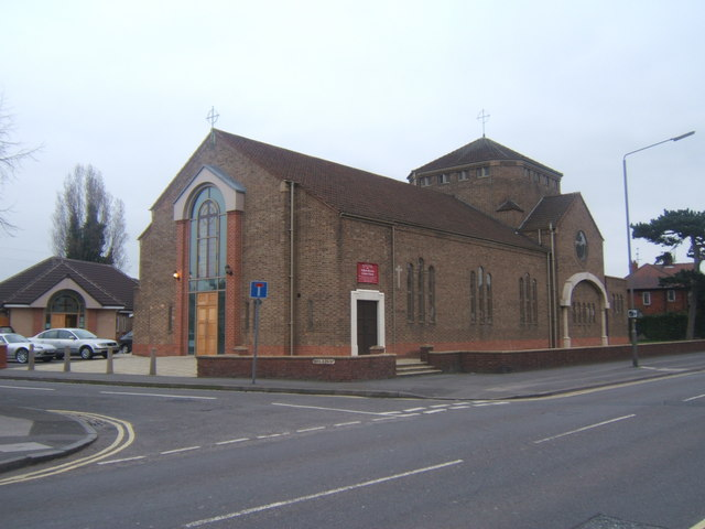 English martyrs catholic church, London road Alvaston